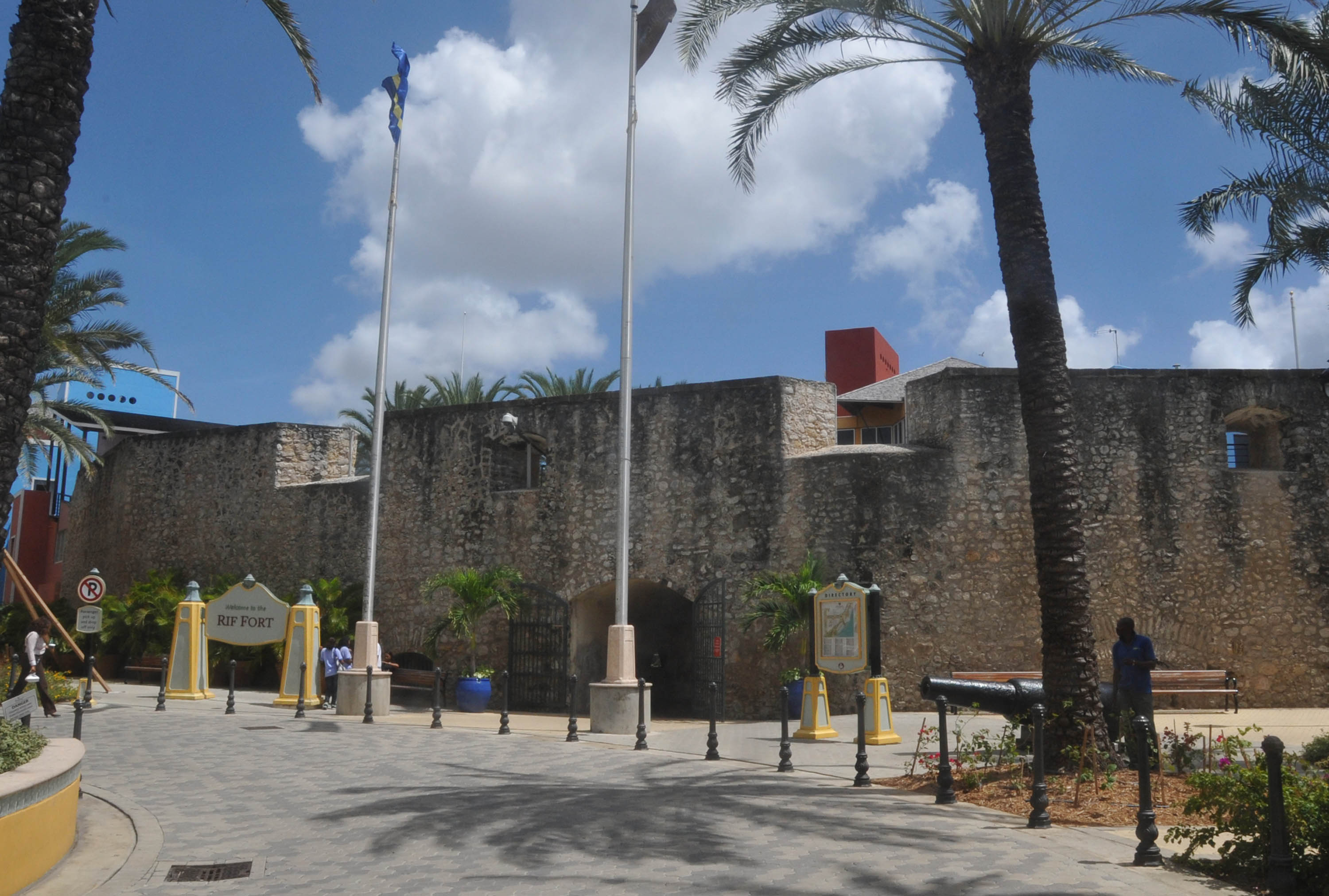 WILLEMSTAD - RIF FORT WHICH IS ONE OF TWO FORTS GUARDING THE ENTRANCE TO THE HARBOR; BUILT IN 1828; A CHAIN ONCE STRETCHED ACROSS THE HARBOR TO FORT AMSTERDAM. NOW CONVERTED INTO THE RENAISSANCE MALL AND CASINO